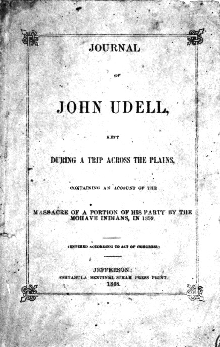 Cover of the 1868 edition of Journal of John Udell, Kept During a Trip Across the Plains. The original is held in the Huntington Library.